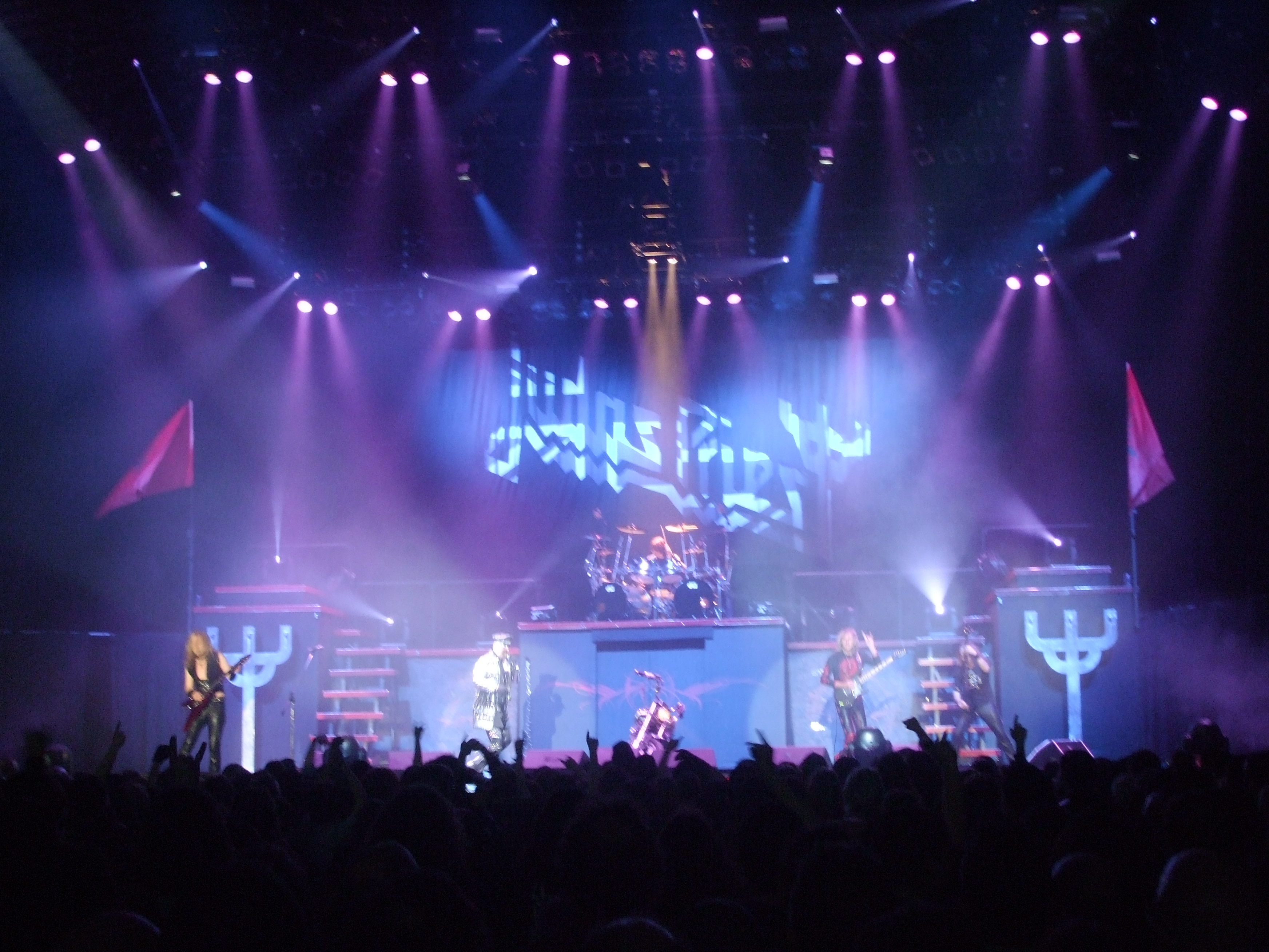 Judas Priest performing at the Sheffield Arena in February 2009